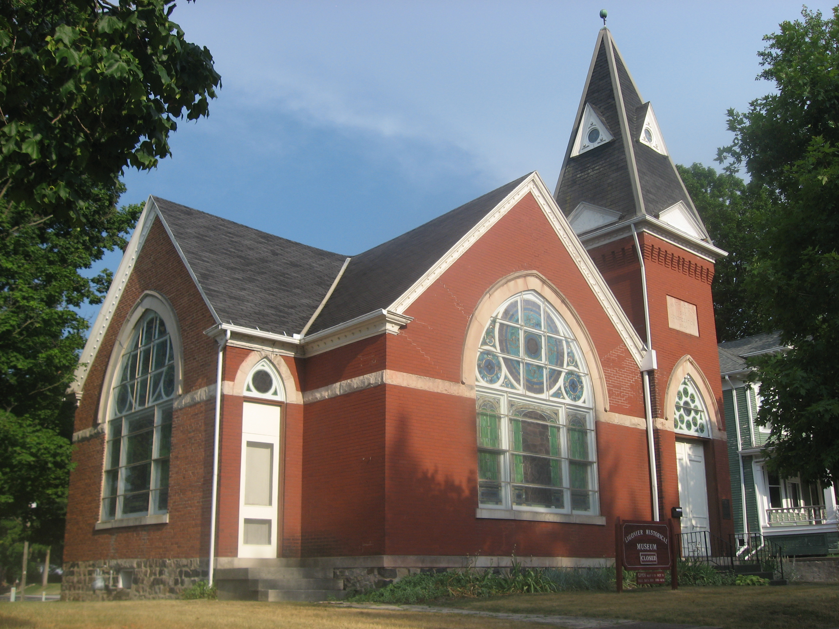 Northern side and front of the Ahavas Shalom Reform Temple, located at 503 S. Main Street in Ligonier, Indiana, United States. In later years, it became a Protestant Christian church, and it is now a museum. Built in 1889, it is listed on the National Register of Historic Places, and it is part of a Register-listed historic district, the Ligonier Historic District.